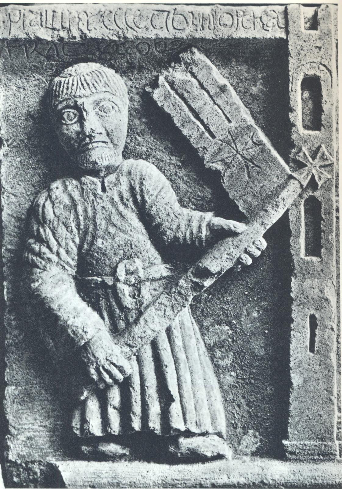 STANDARD BEARER – DETAIL FROM THE BAS-RELIEFS OF PORTA ROMANA – YEAR 1171 – CITY MUSEUM, MILAN